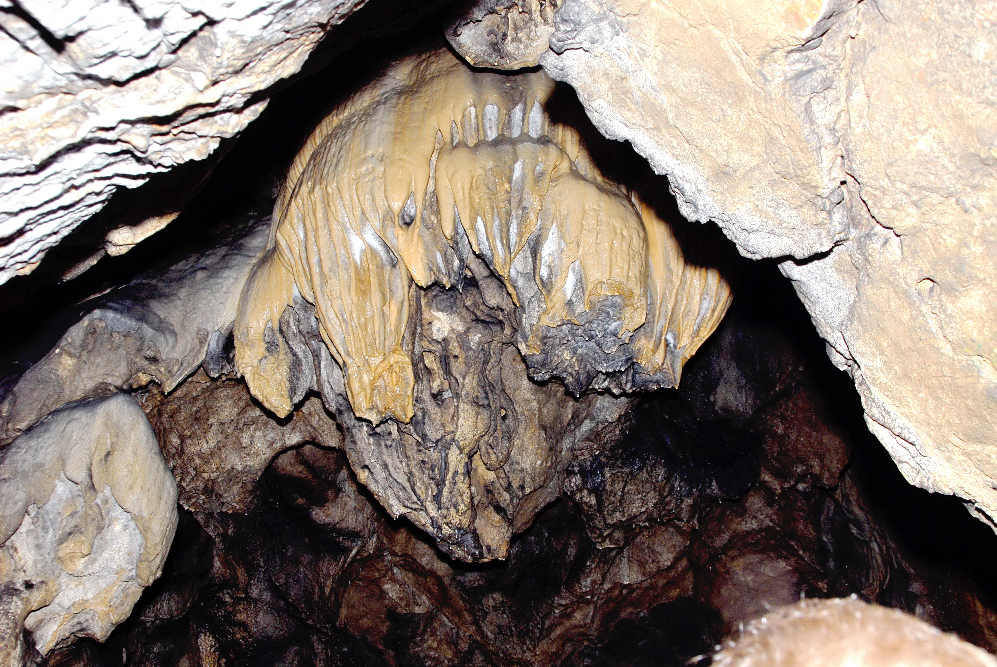 “Chandelier”, partially destroyed stalactite formation, in the final chamber of the cave “Eggerloch” near “Warmbad” in Villach, Carinthia, Austria